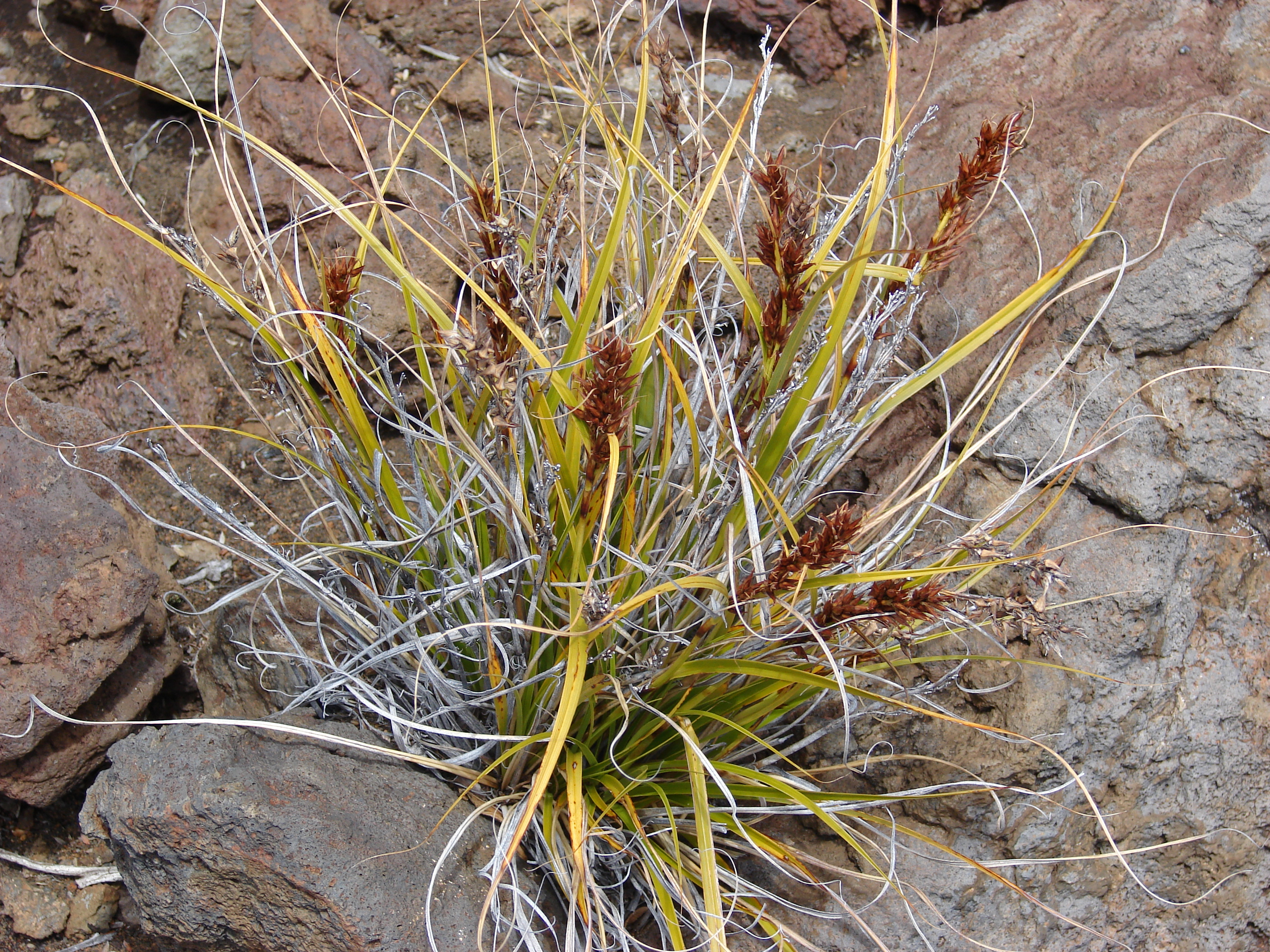 Morelotia gahniiformis (fruiting habit). Location: Maui, South Rim Haleakala National Park